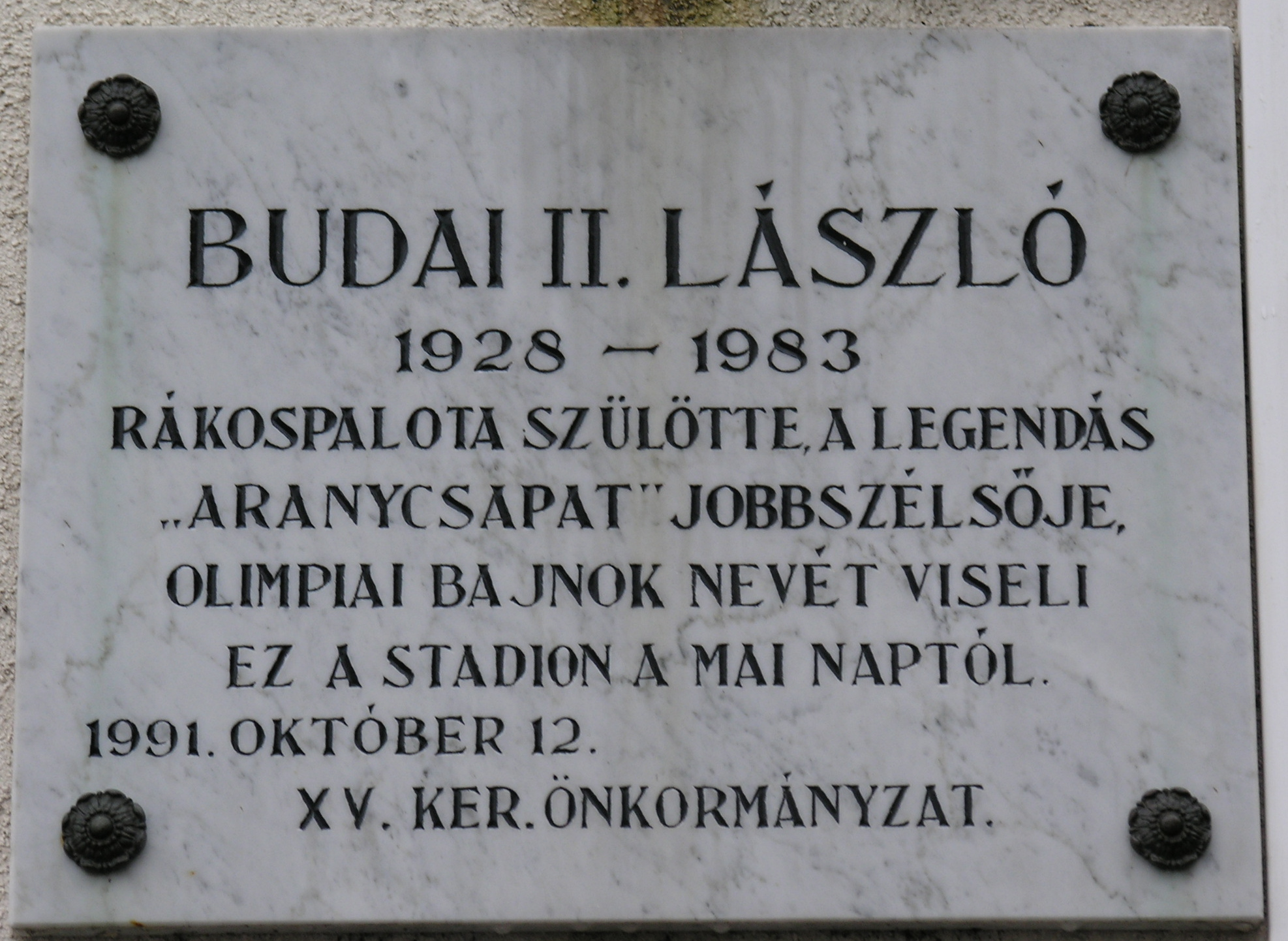 Commemorative plaque of László Budai II, Budapest District XV, Széchenyi Square - Budai II László Stadium